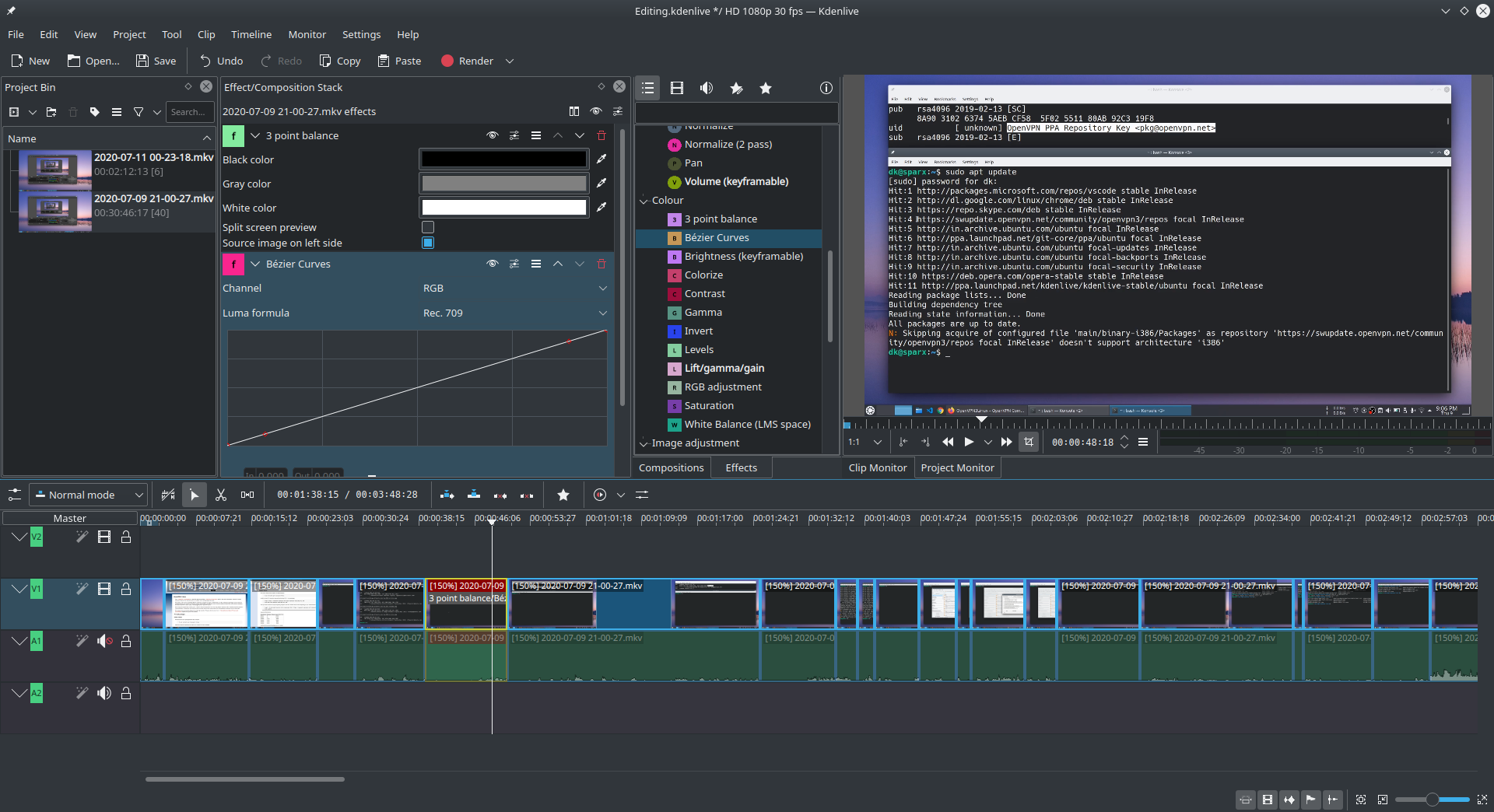 Kdenlive 20.04.1 with an open project and active effects.